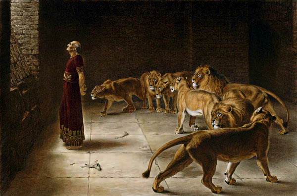 published by Thomas Agnew and Sons, 1892 (Daniel in the Lions Den)